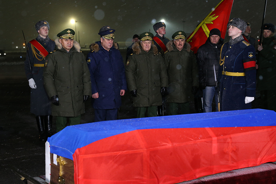 Repatriation of Oleg Peshkov's body at Chkalovsky Airport (2)